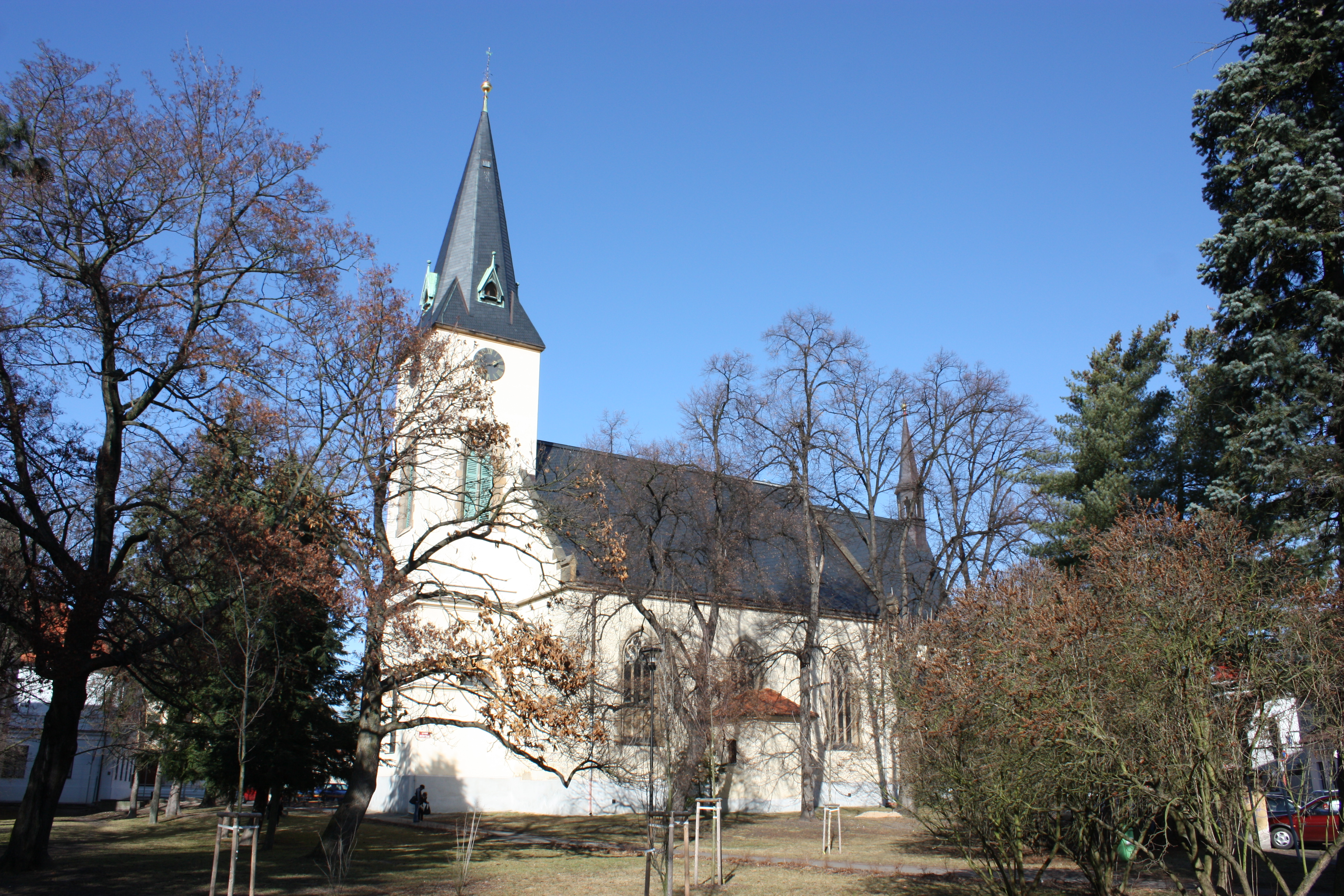 Church of the Exaltation of the Holy Cross in Poděbrady